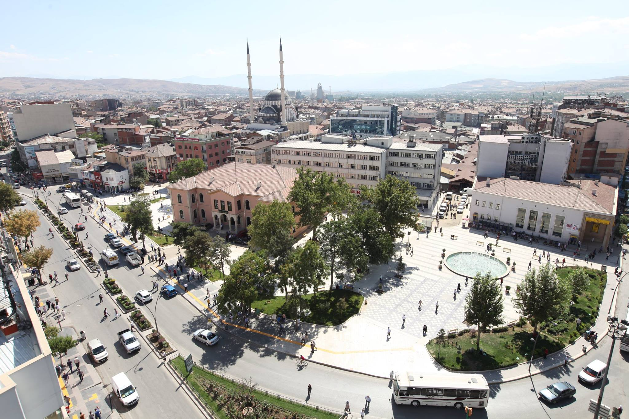 Elazığ city center